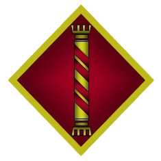 Latvian Land Forces logo